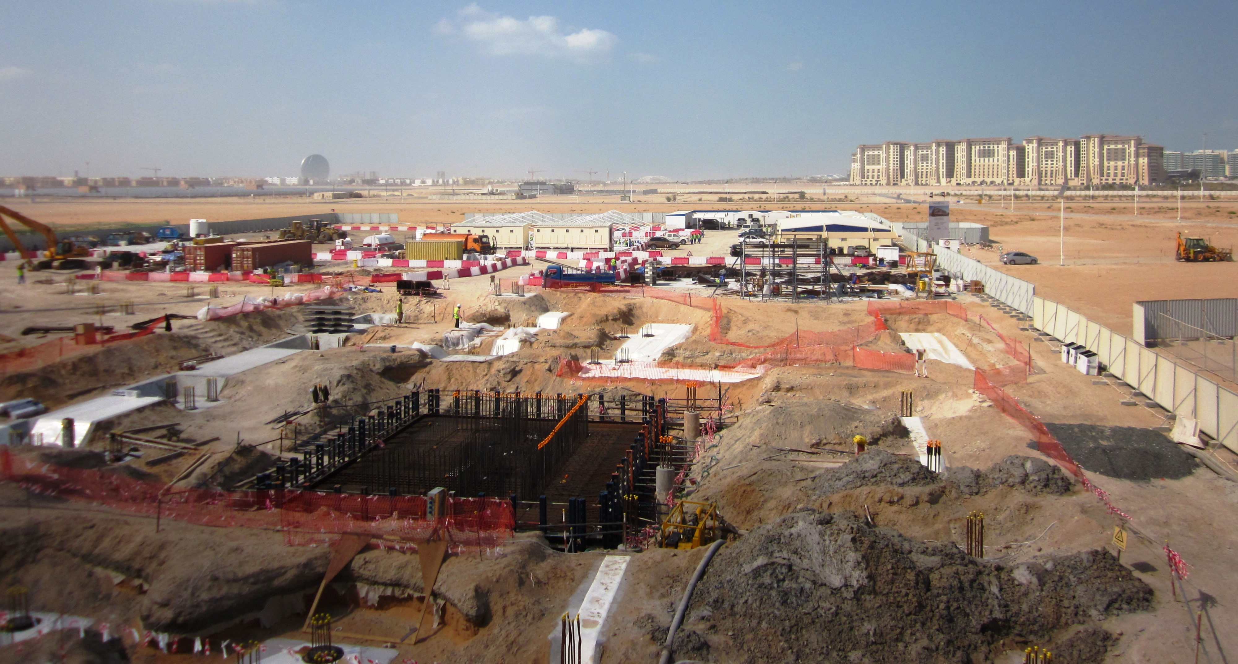 Masdar City under construction in January 2012. Abu Dhabi, United Arab Emirates